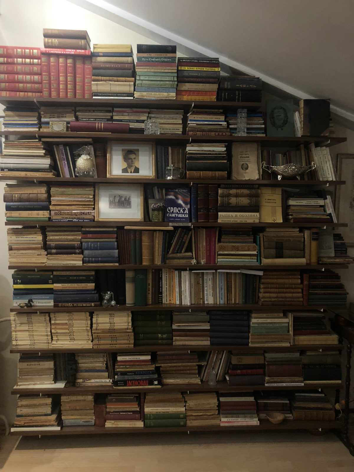 Library of Marko S. Marković in the Society for Culture, Art and International Cooperation Adligat in Belgrade, Serbia. Српски (ћирилица): Библиотека Марка С. Марковића у Удружењу за културу, уметност и међународну сарадњу „Адлигат” у Београду.